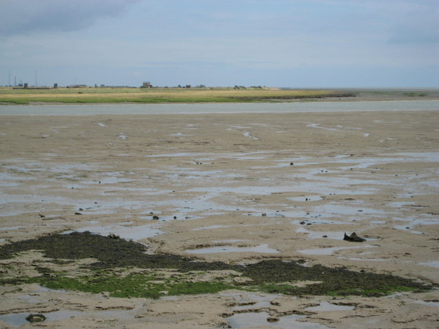 Havengore Island This is the south-east corner of the MoD-owned land of Havengore Island viewed looking across Havengore Creek from the public footpath near Haven Point. The creek is part of the complex of watercourses on the south side of the River Roach that separate Foulness Island and Havengore Island from the mainland. The creek, but not the island, forms part of the Foulness SSSI.